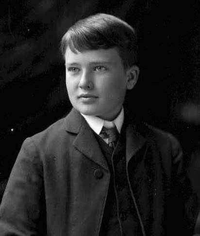 Charles Edison circa 1900